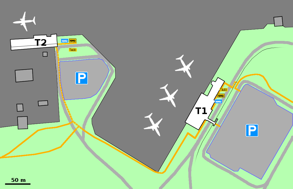 Map showing area around passenger terminals at Turku airport, TKU/EFTU. Walkway is marked by orange line and roads are light grey.